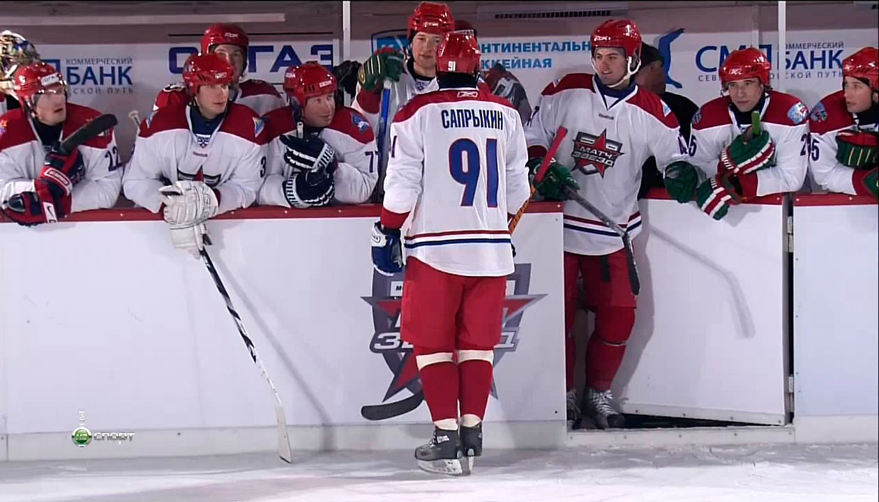 All-Russian Team's bench. Red Square, Moscow, Russia January 10, 2009